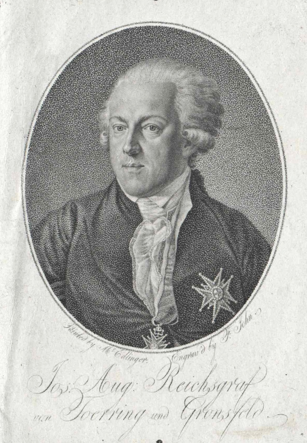 Joseph August von Toerring (1753-1826), bayerischer Graf, Politiker und Dichter